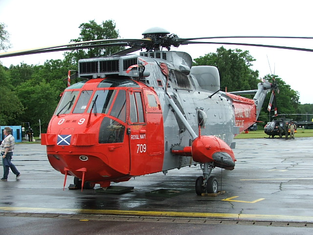 Royal Navy Sea King. Kiel Marien Air Force Base, Germany. 2005 /PAJ